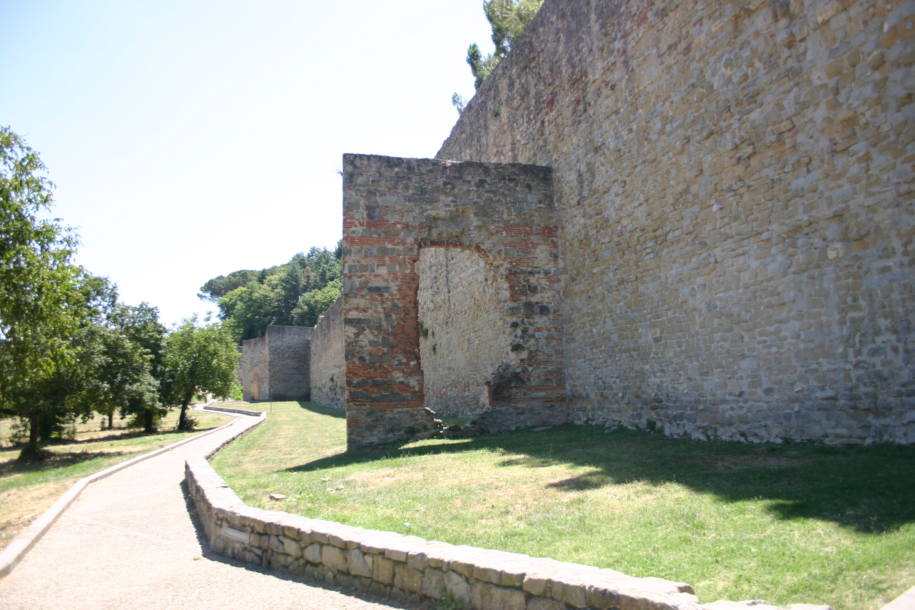 Part of the North Arezzo city wall. Arezzo, Italy. (Note: Picture has Geotag information stored in EXIF.)